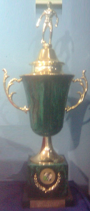 Trophies of association futsal of northeast